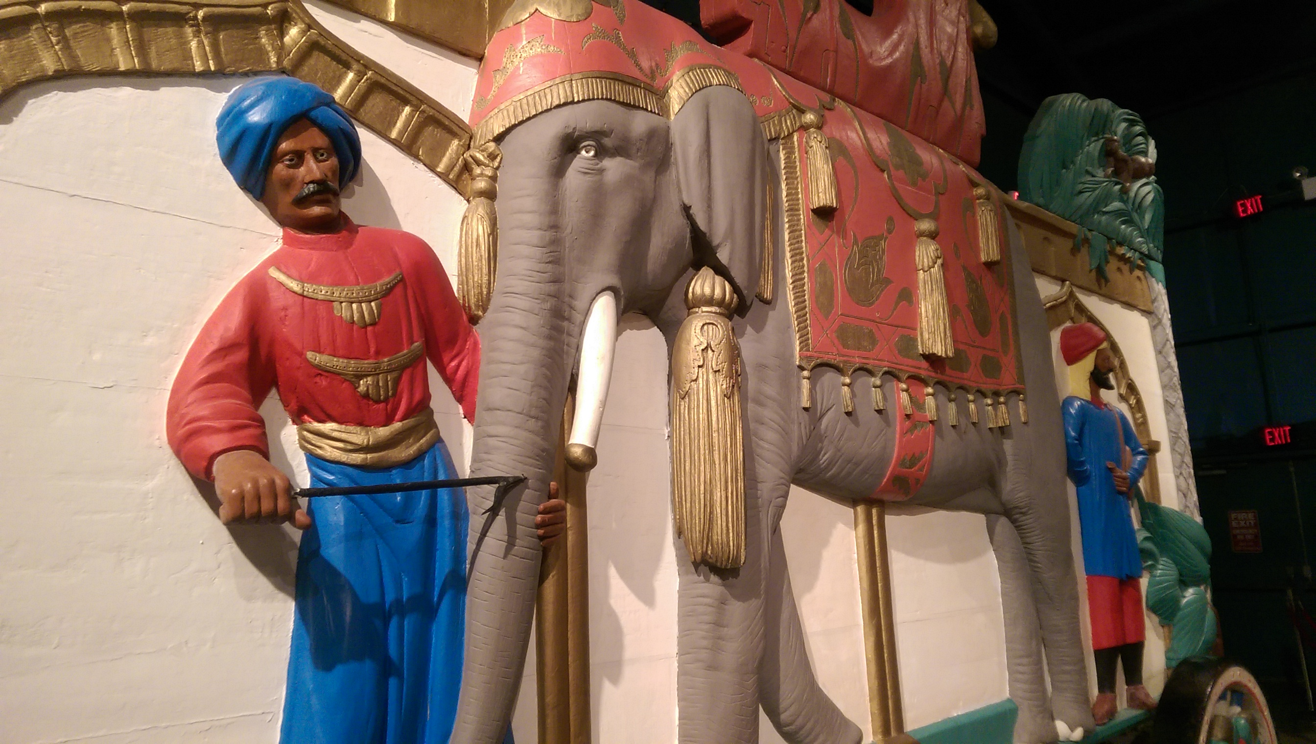 Historic circus wagon of the Ringling Brothers, Ringling Museum, Sarasota, FL, USA